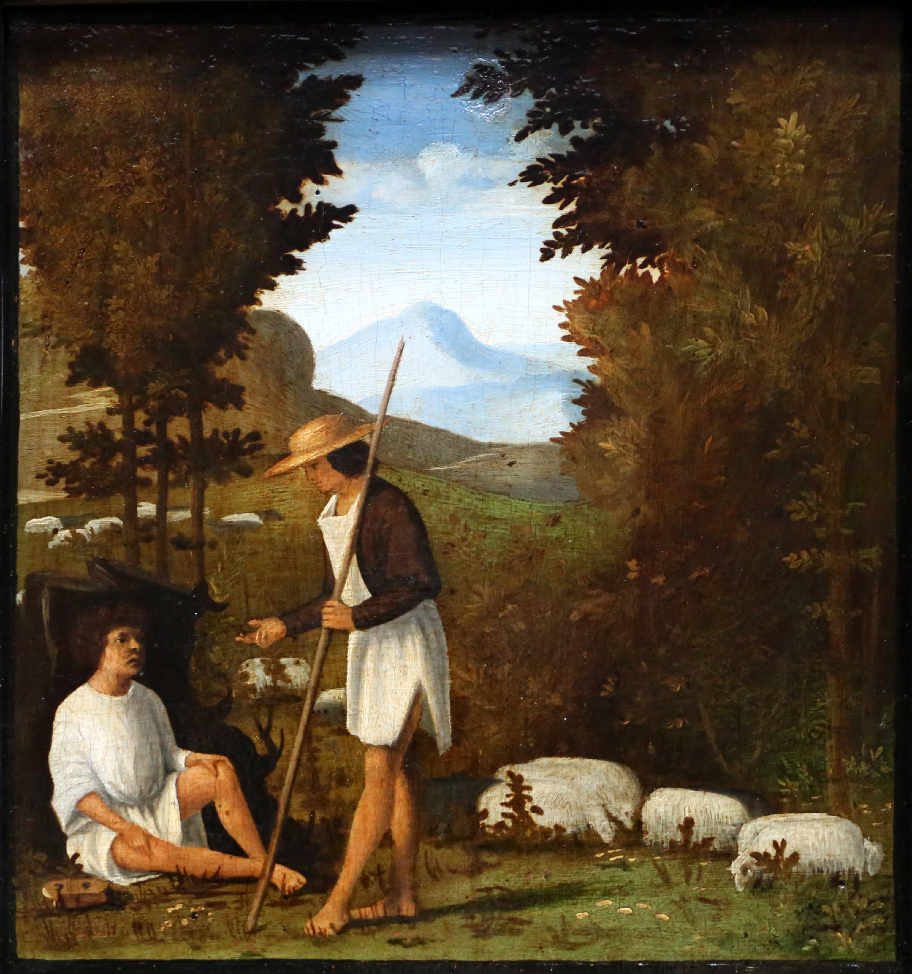 Italian Mannerist paintings in the National Gallery, London